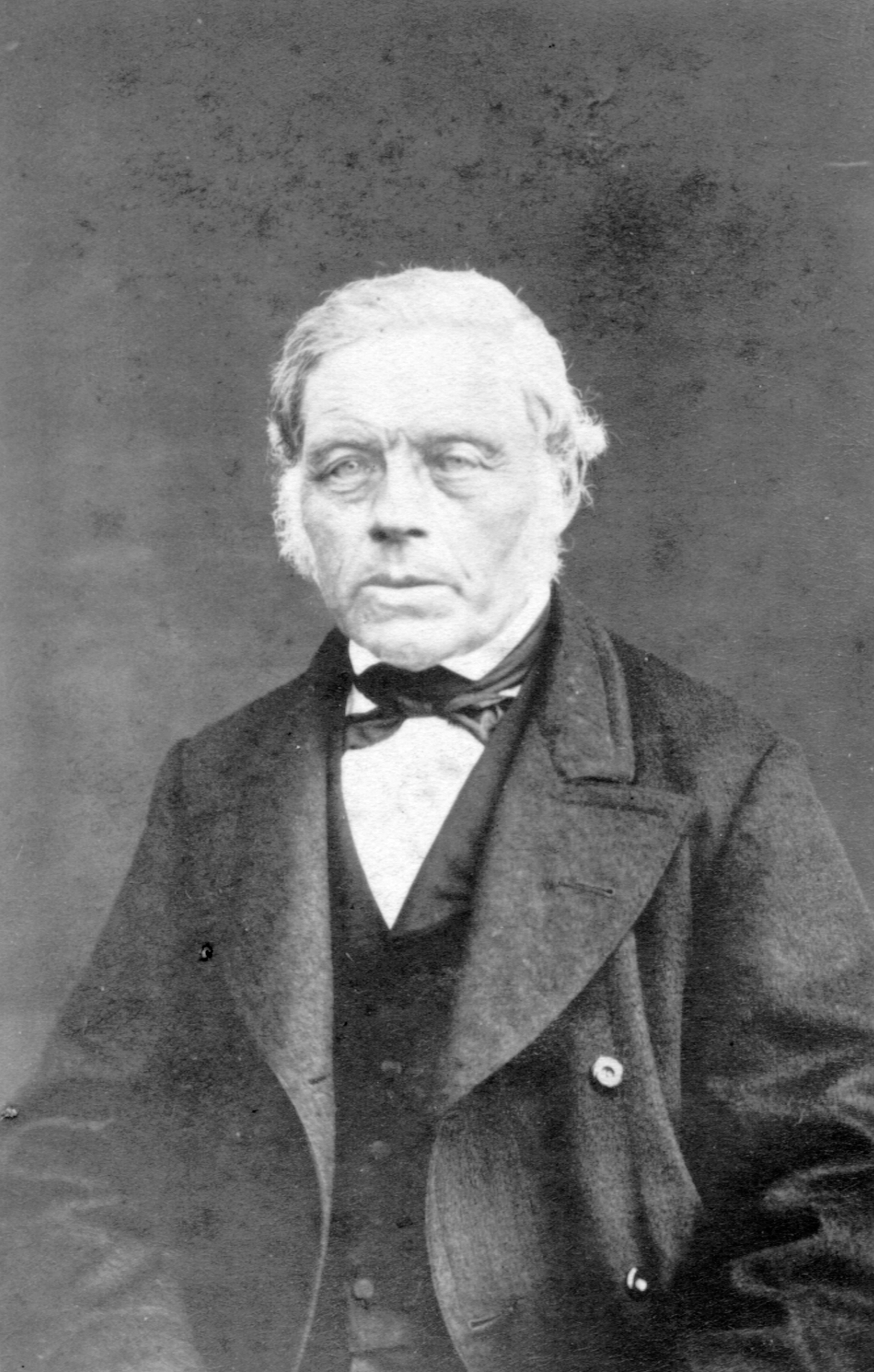 Peder Olsen (1819–1909)